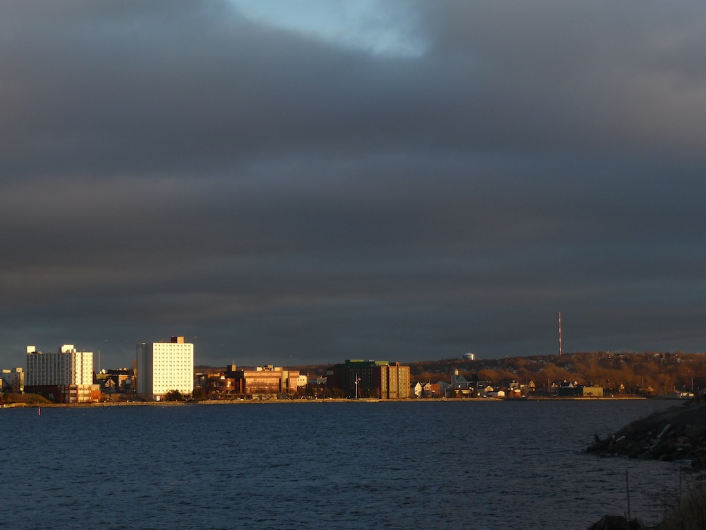 Sydney, Nova Scotia on the first day of the second decade of the third millenium, taken from Westmont. Prominent in the picture is the Civic Centre and the CJCB-TV transmitter tower on Hardwood Hill.